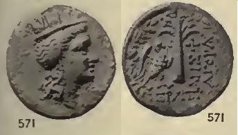 Ancient coin from Hierapytna, Crete, 200-67 BCE. Compare with Sear# 3308. Greek coins and their parent cities (1902) Author: Ward, John, 1832-1912; Hill, George Francis, Sir, 1867-1948 Subject: Coins, Greek; Numismatics, Greek; Greece -- Description, geography; Italy -- Description and travel; Turkey -- Description and travel Publisher: London : Murray Possible copyright status: NOT_IN_COPYRIGHT Language: English Call number: AKB-0671 Digitizing sponsor: MSN Book contributor: Robarts - University of Toronto Collection: toronto Scanfactors: 7